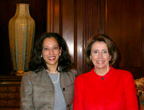 Congresswoman Pelosi meets San Francisco's District Attorney, Kamala Harris; March 30, 2004